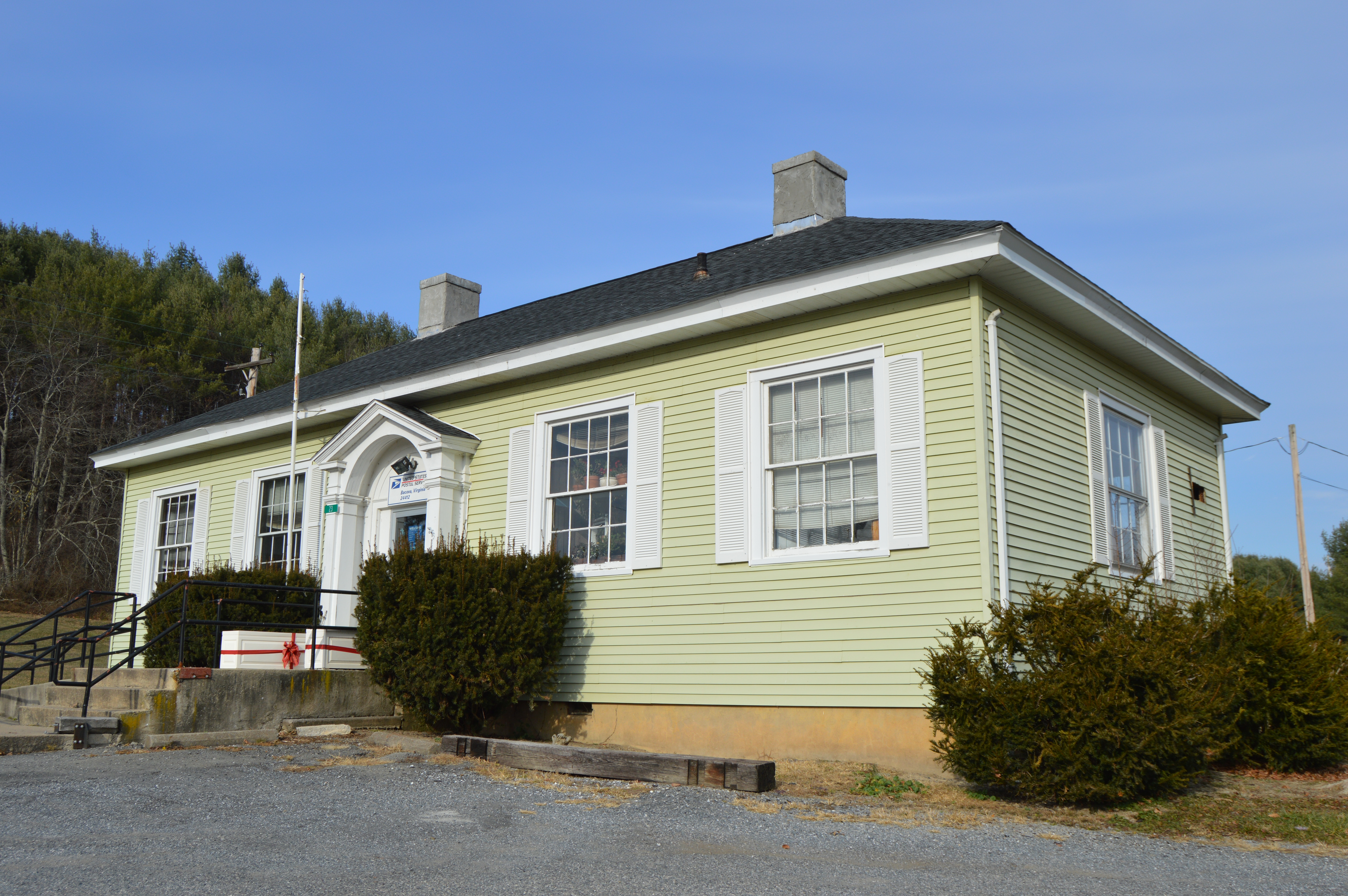 Front and southeastern side of the Bacova post office, located at 23 Post Office Drive at Bacova in Bath County, Virginia, United States.